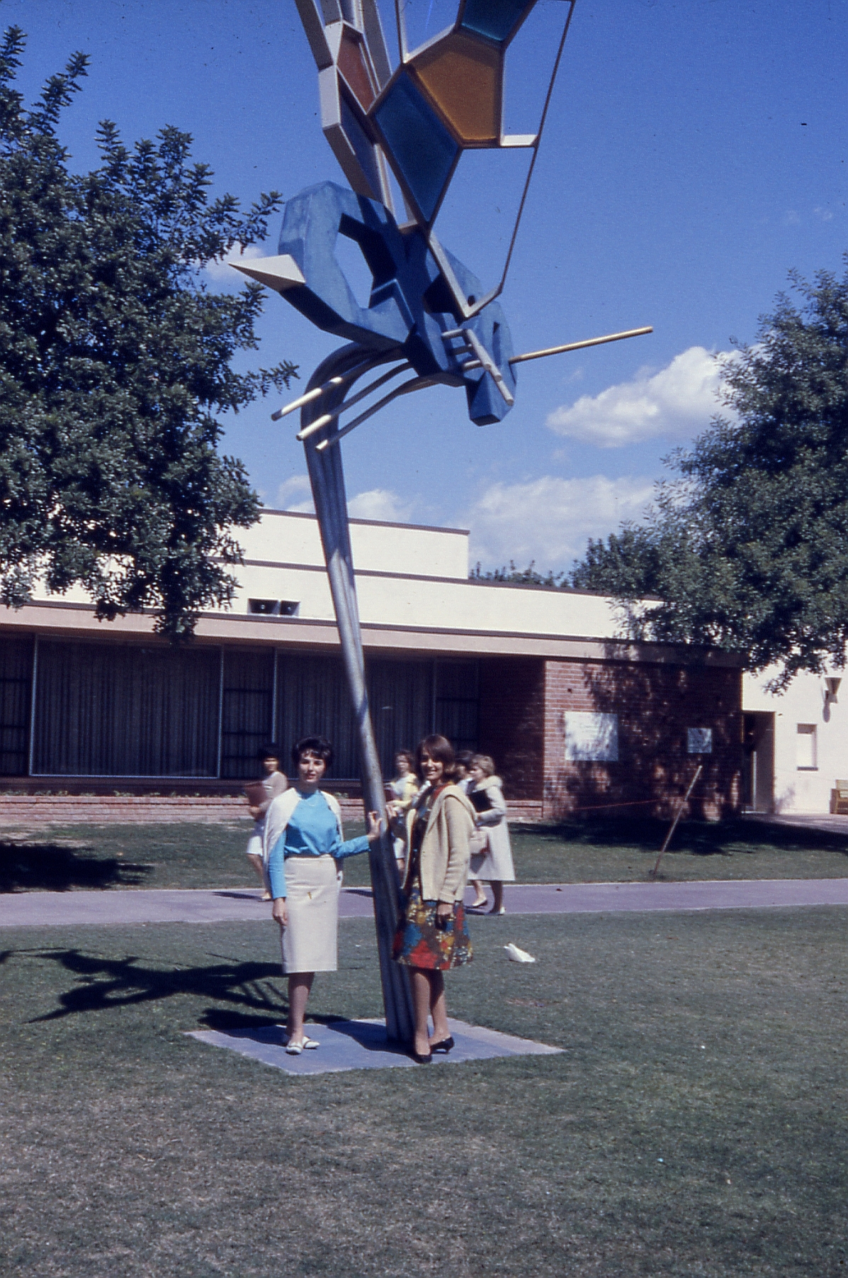 Fullerton Junior College --- the campus Hornet logo in modern sculpture art form. Taken with a 35mm Exakta VX, using Ektachrome slide film.